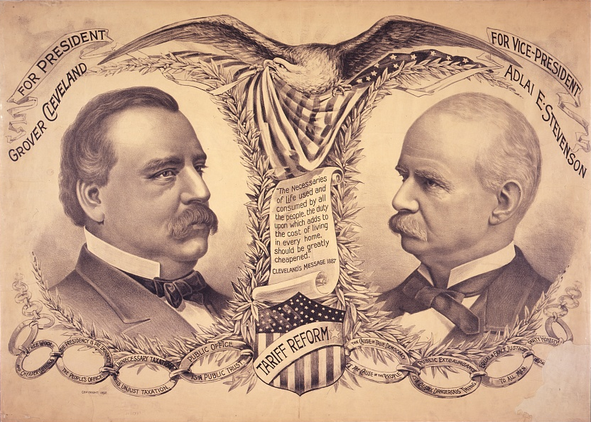 For President, Grover Cleveland, for Vice-President, Adlai E. Stevenson (1892).